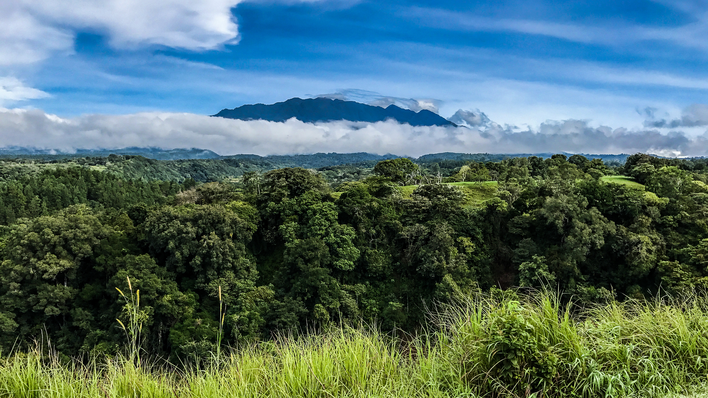 Clouds surrounding Volcan Baru, Panama's highest mountain